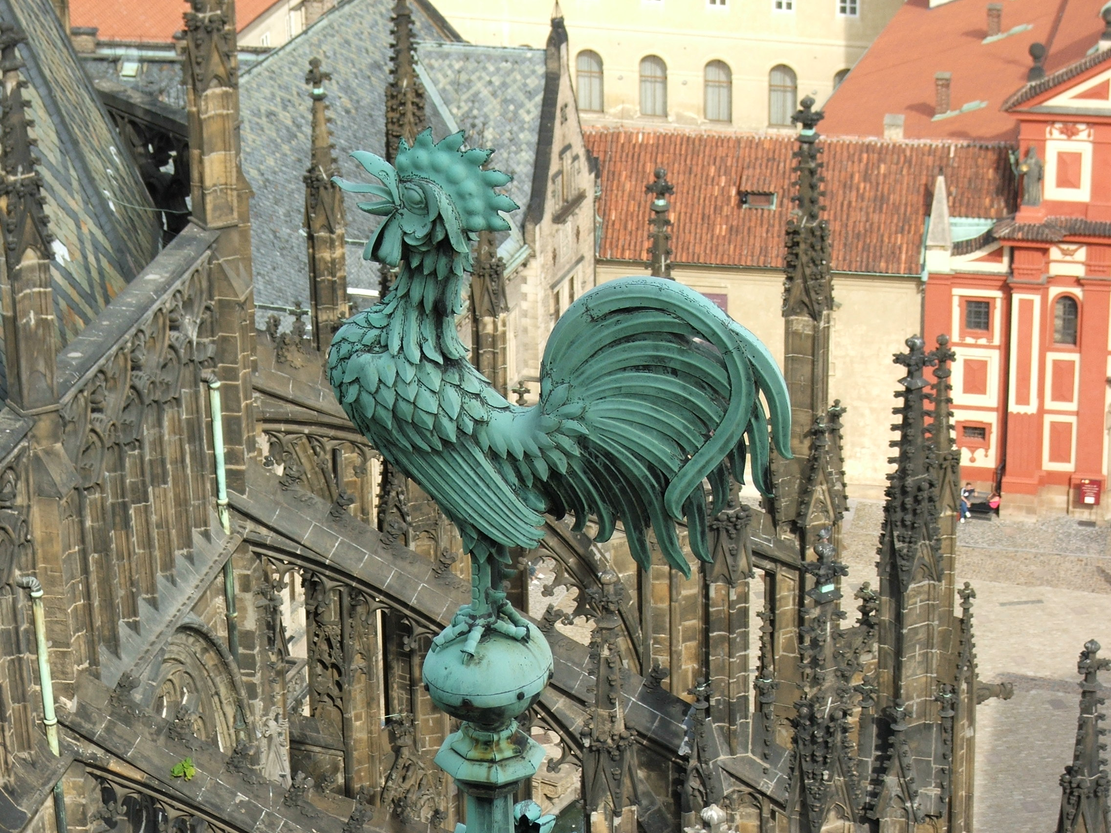 Cock on the roof of St. Vitus Cathedral in Prague, Czechia